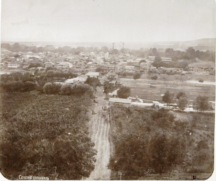 Tskhinvali URL: [1] Category:Images of Georgia (country)